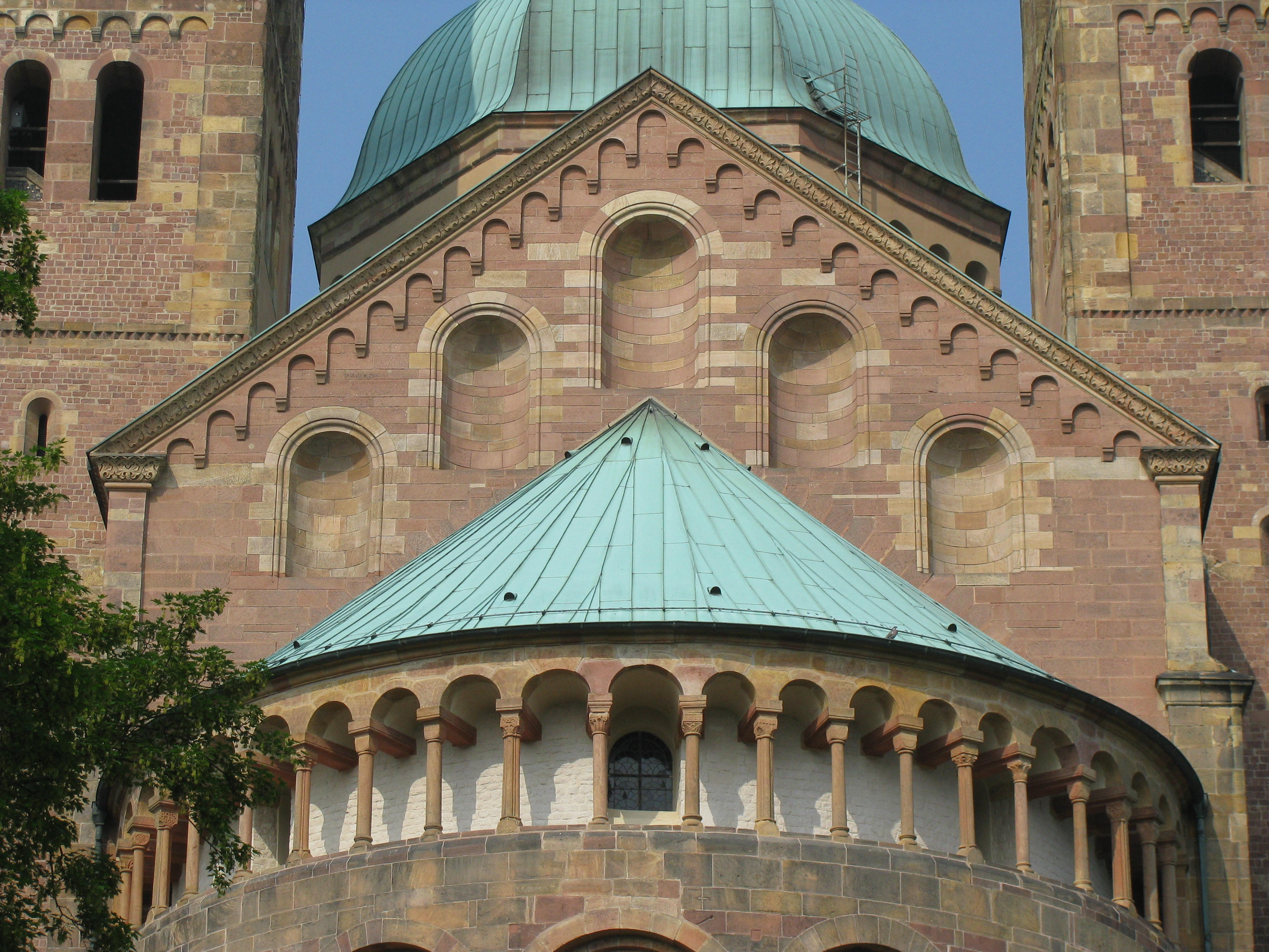 Speyer Cathedral: details on eastern facade